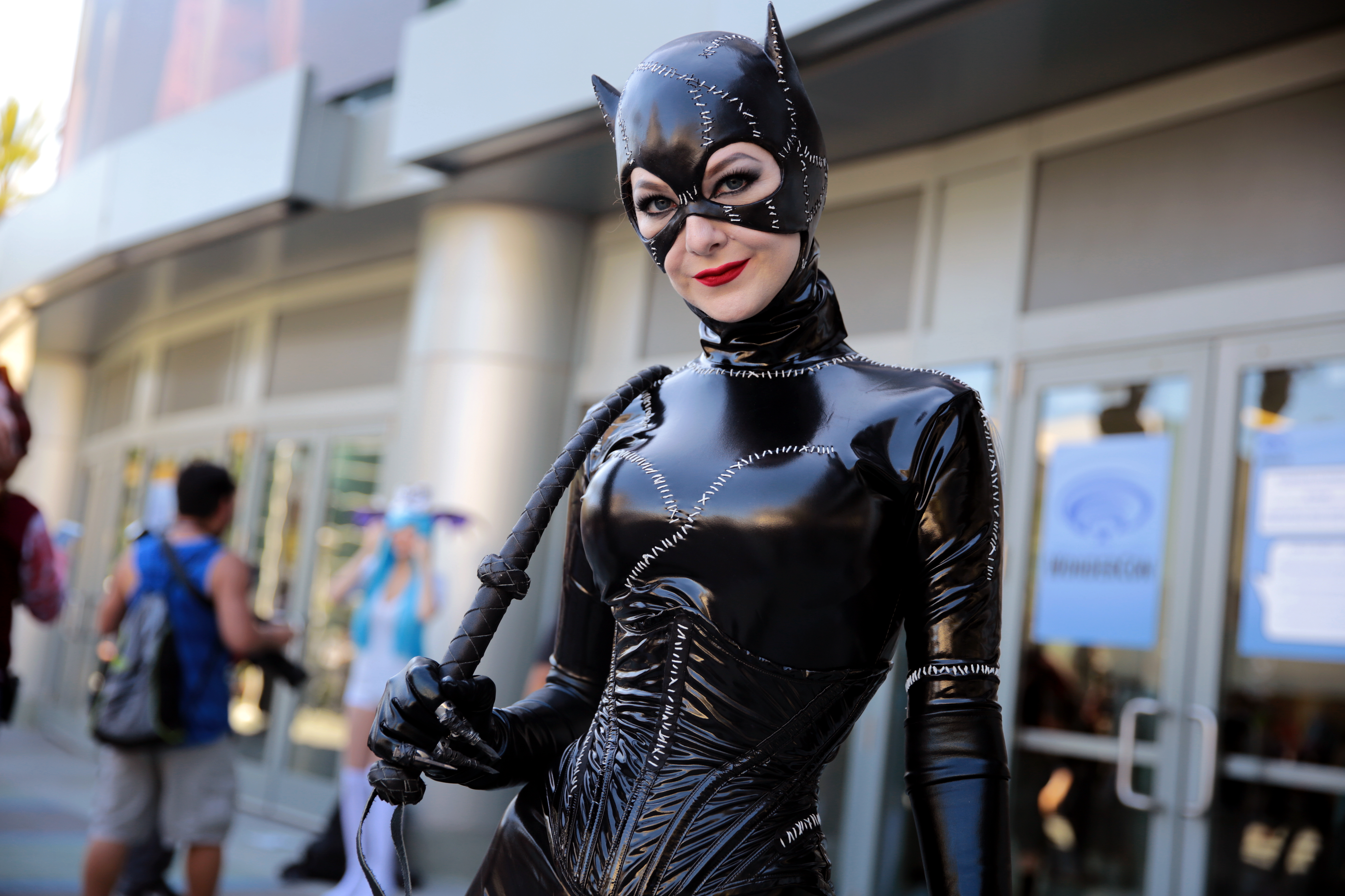 Catwoman cosplayer at the 2017 WonderCon at the Anaheim Convention Center in Anaheim, California.